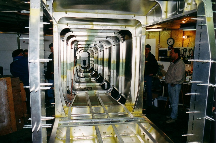 I took this photo of a the tail cone of a Murphy Moose under construction in 1999.